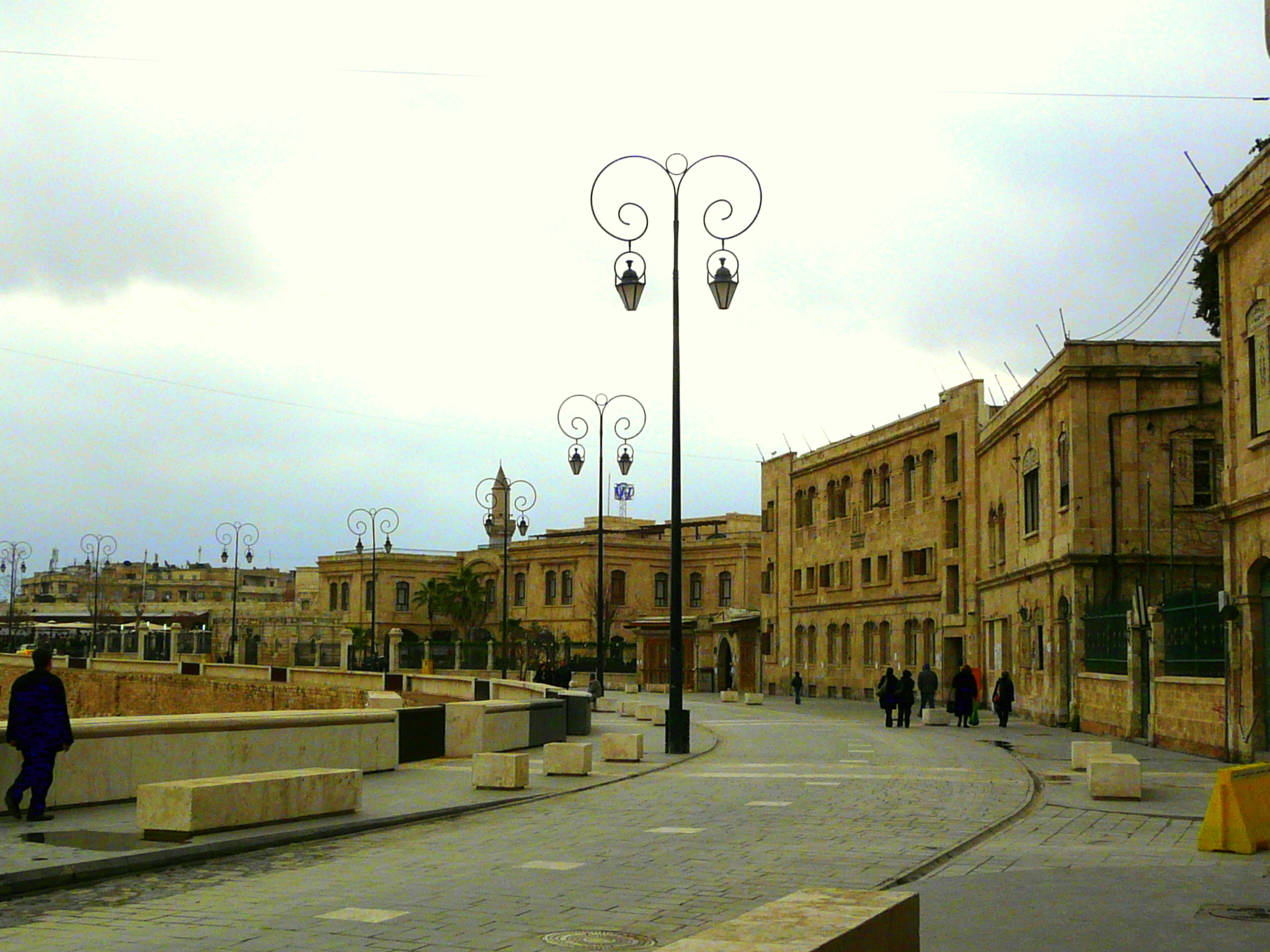 Street called around the Citadel, Aleppo